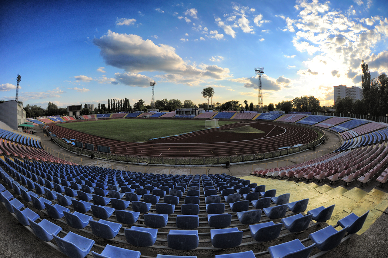 Central Stadium in Cherkasy, Ukraine